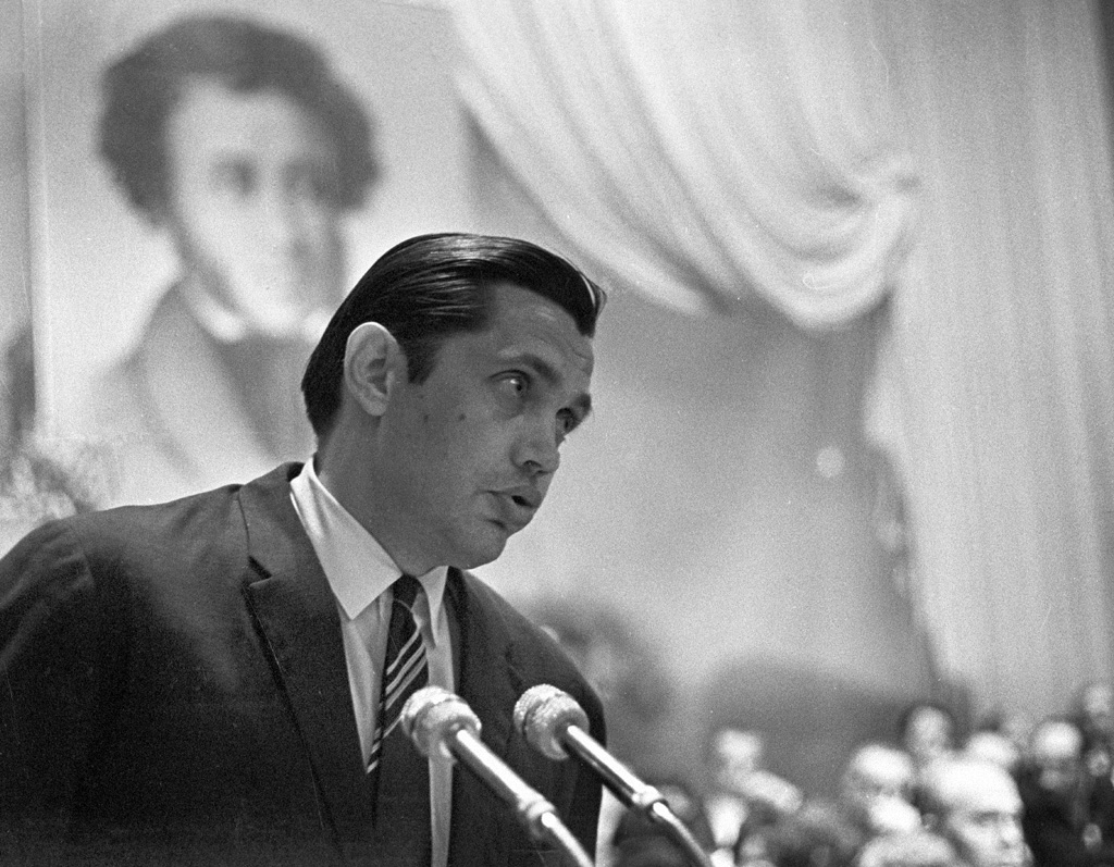 “Poet Robert Rozhdestvennsky at 3rd All-Union Celebration of Pushkin Poetry”. The 3rd All-Union Celebration of Pushkin Poetry. Poet Robert Rozhdestvennsky. The Pushkin Academic Drama Theatre in Pskov.